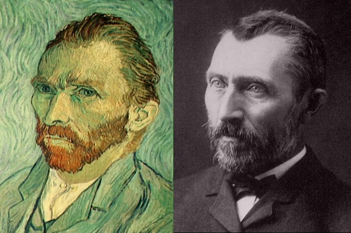 Vincent van Gogh, self portrait and possible photo